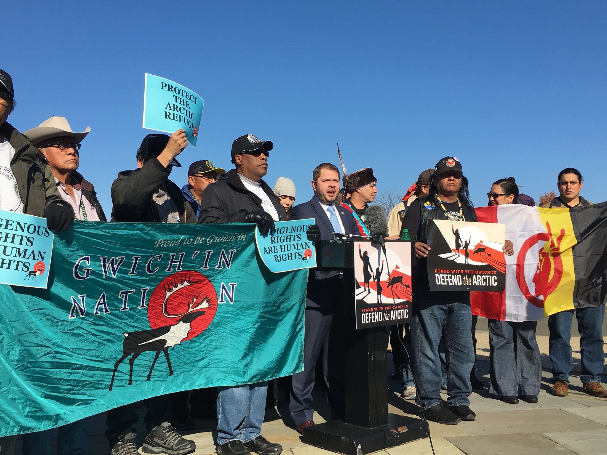 Our future is in green energy. We can’t let Donald Trump and Congressional Republicans jeopardize our environment and the health & safety of future generations on the backs of our tribal brothers and sisters. I #StandWithTheGwichin in their call to #ProtectTheArctic Refuge.